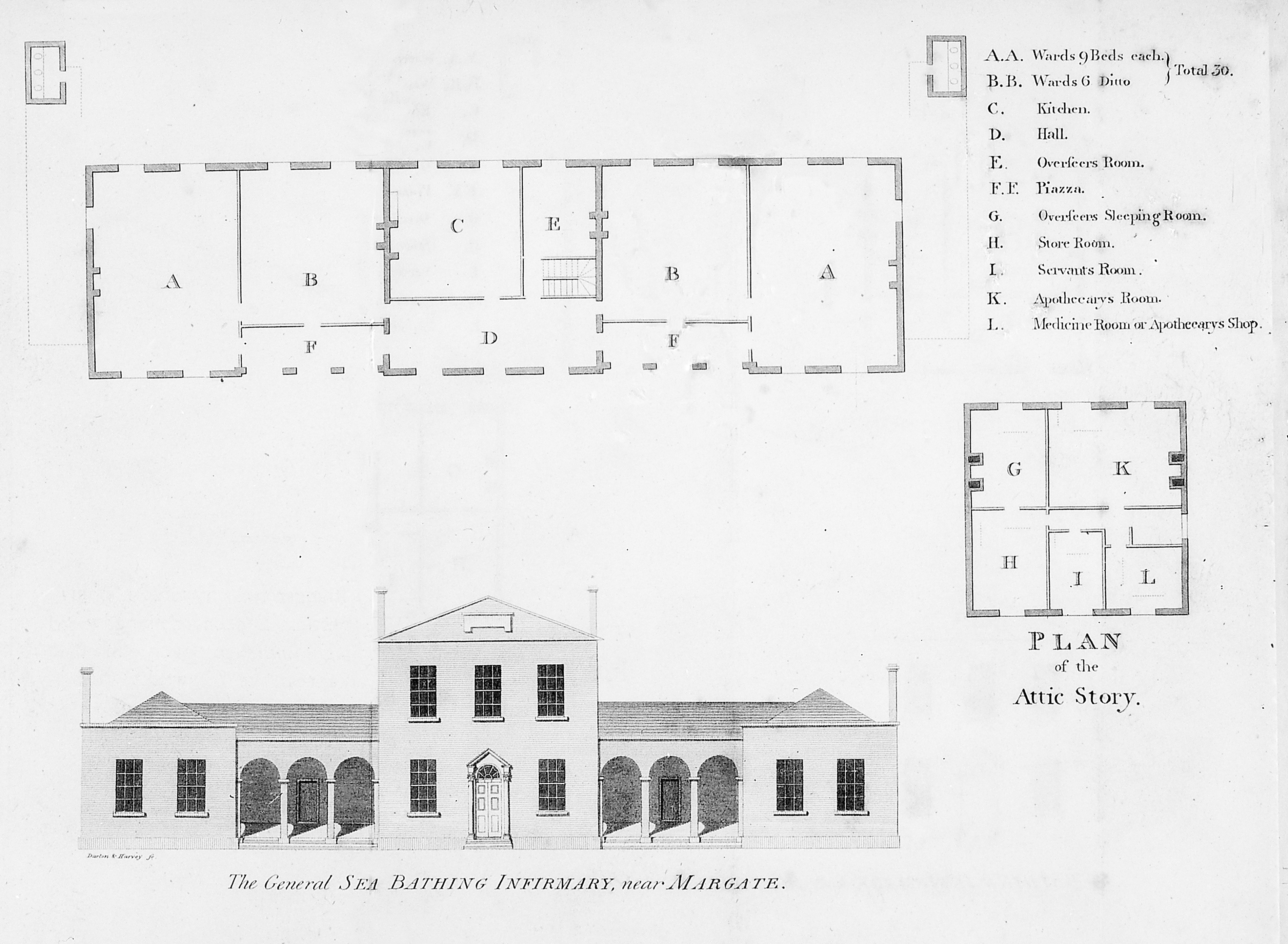 General sea-bathing infirmary near Margate. Plans and elevations. General Collections Keywords: Balneotherapy; John Coakely Lettsom